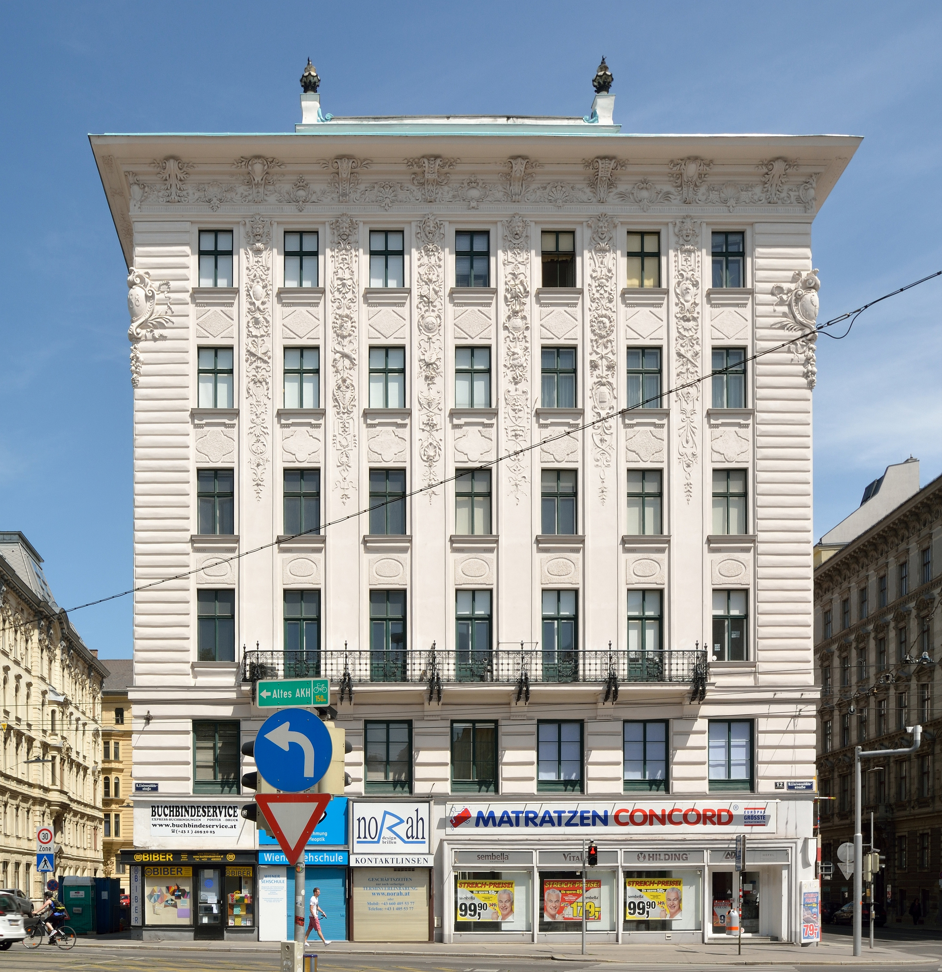 Hosenträgerhaus by Otto Wagner (1888), Garnisongasse 1, 9th district of Vienna